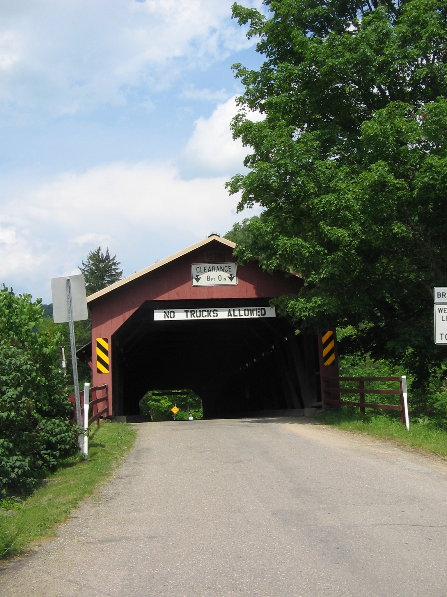 West Portal of Forksville Covered Bridge in Forksville, Sullivan County, Pennsylvania in the United States